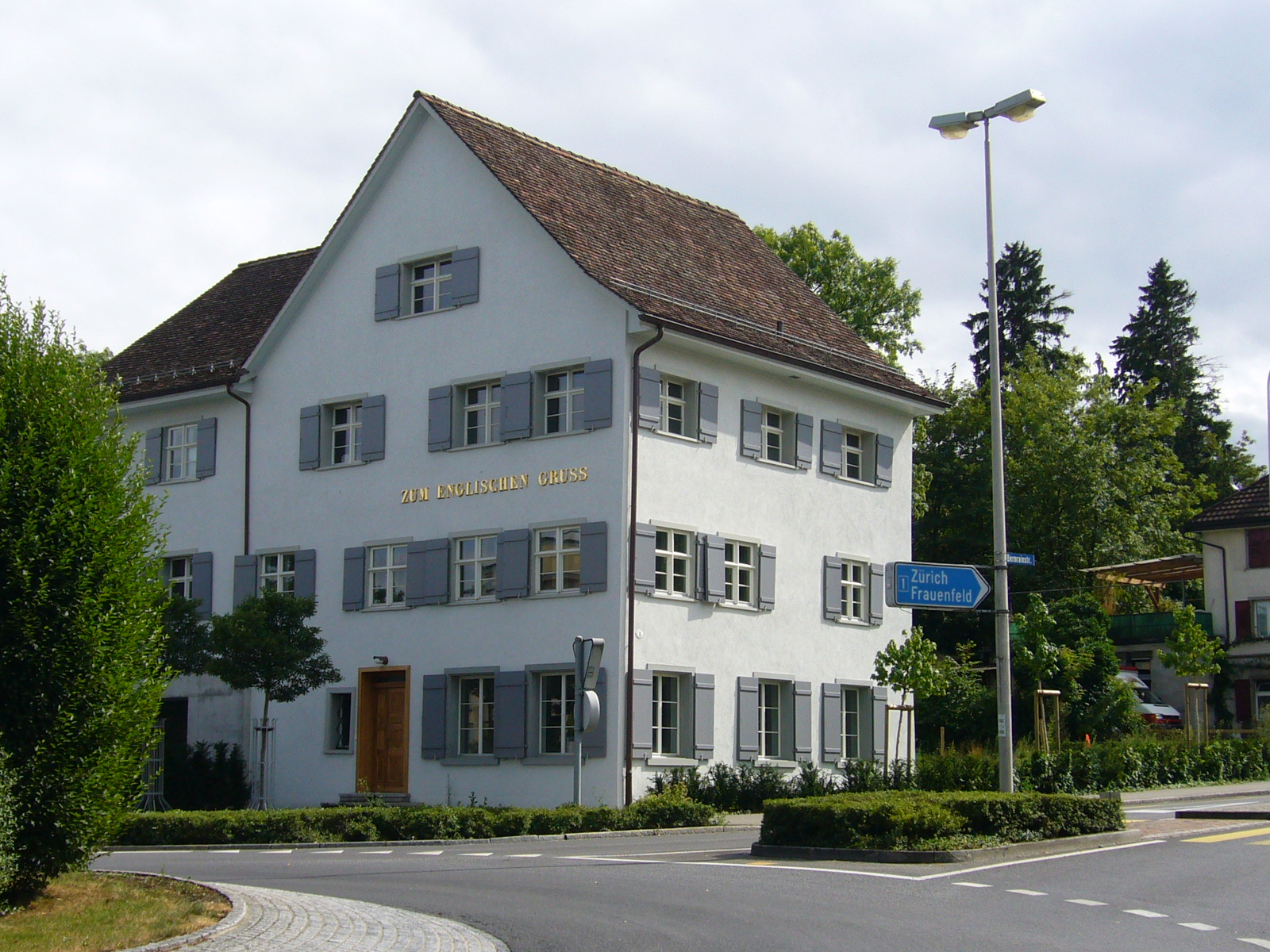 House "Zum Englischen Gruss". Former hostel for pilgrims. City of Kreuzlingen, canton of Thurgau, Switzerland. Picture by Peter Berger, August 1, 2006.